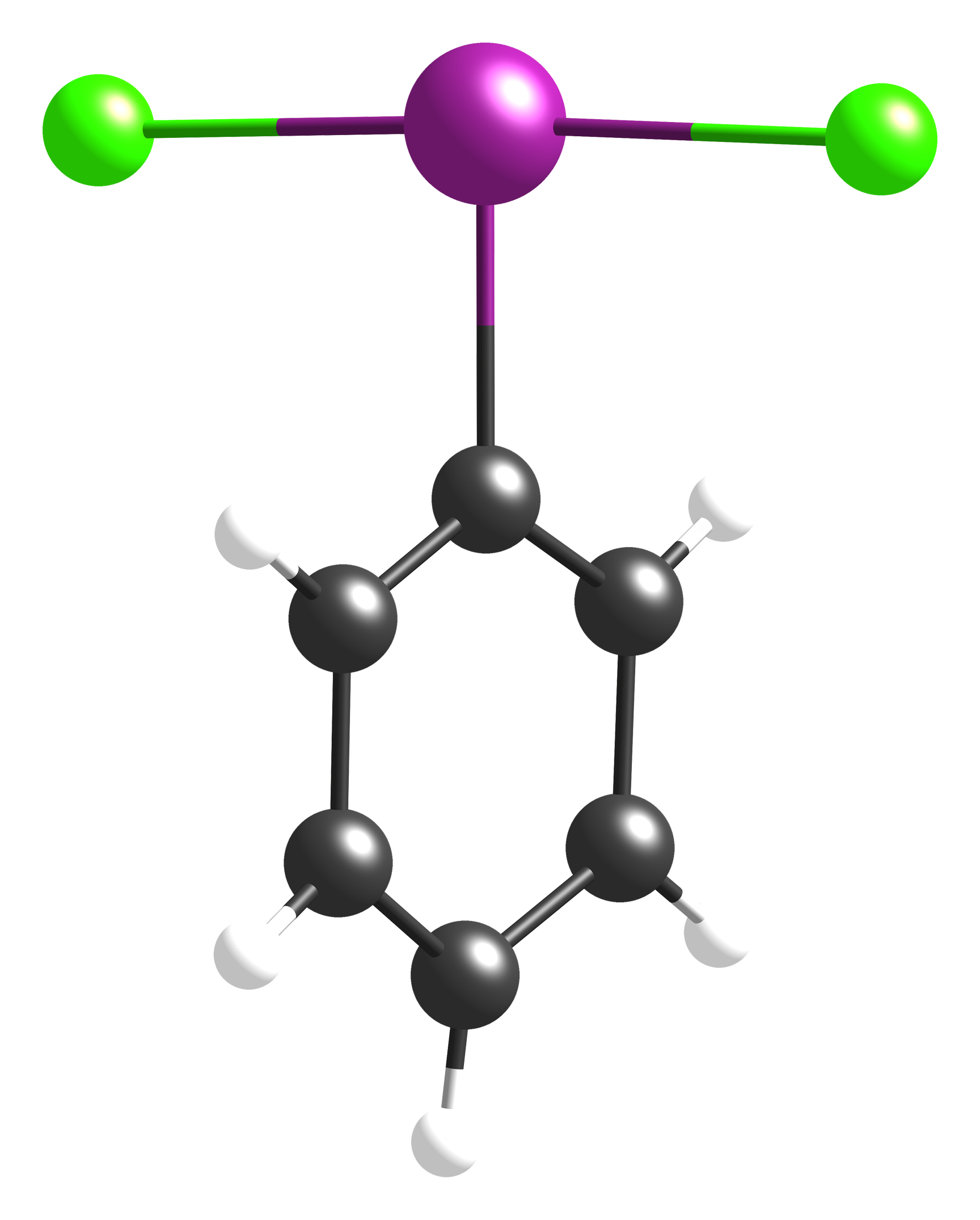 Ball-and-stick model of the (dichloroiodo)benzene molecule, PhICl2, based on the crystal structure. Colour code: Carbon, C: black Hydrogen, H: white Chlorine, Cl: green Iodine, I: purple Crystal structure from: Synthesis and Decomposition of Dichloroiodoarenes. An Improved Low Temperature X-ray Structure of Dichloroiodobenzene (M 2031) and the Structure of 1-Chloro-2,3,5,6-tetrakis(chloromethyl)-4-methylbenzene J. V. Carey, P. A. Chaloner, P. B. Hitchcock, T. Neugebauer, K. R. Seddon J. Chem. Res. (1996) 358, 2031–. DOI unknown.